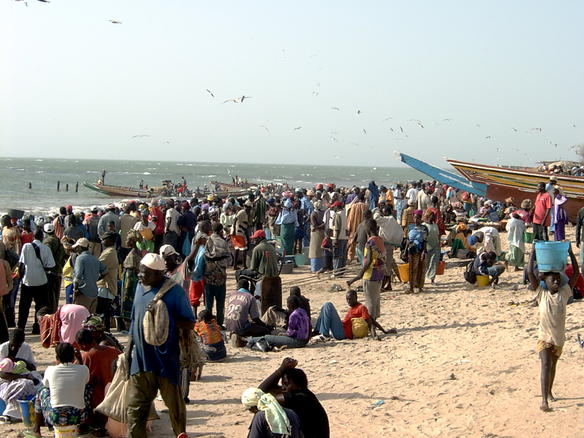 The mad fish market